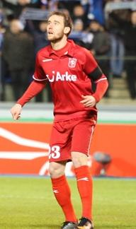 FC Twente player Bart Buysse